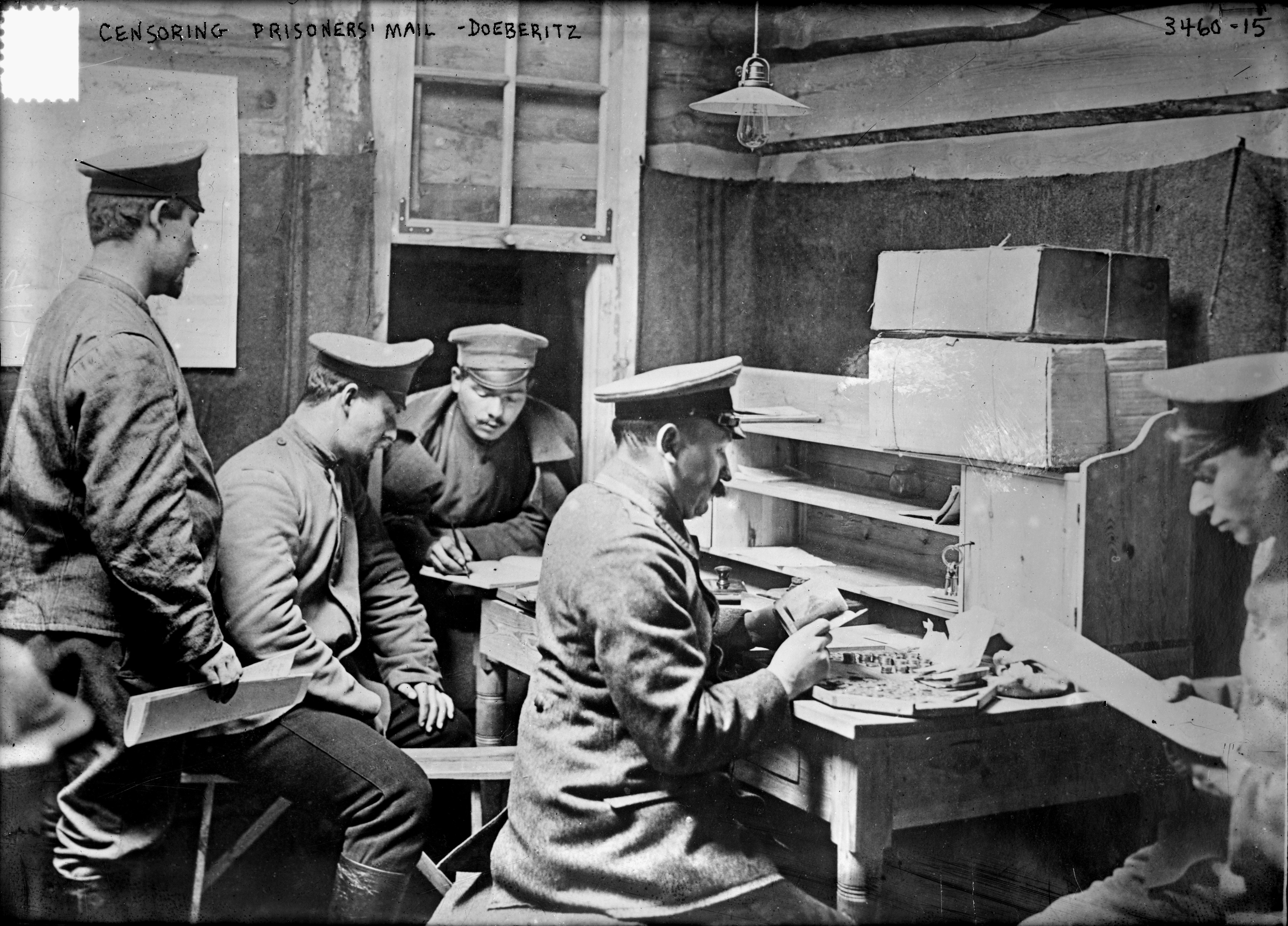 Censoring prisoners' mail – Doeberitz